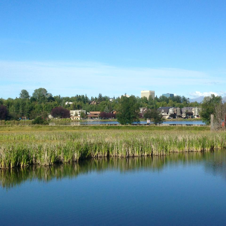 View from the Tony Knowles Coastal Trail in Anchorage, Alaska. In the foreground is Westchester Lagoon, which forms the western portion of Chester Creek immediately before its outlet into Knik Arm. In the midground is the southwest corner of the neighborhood of Anchorage known variously as Bootleggers Cove, Inlet View and South Addition. In the background is the skyline of downtown Anchorage, with Anchorage's two tallest buildings, the Conoco-Phillips Building and Robert B. Atwood Building, standing above the others.